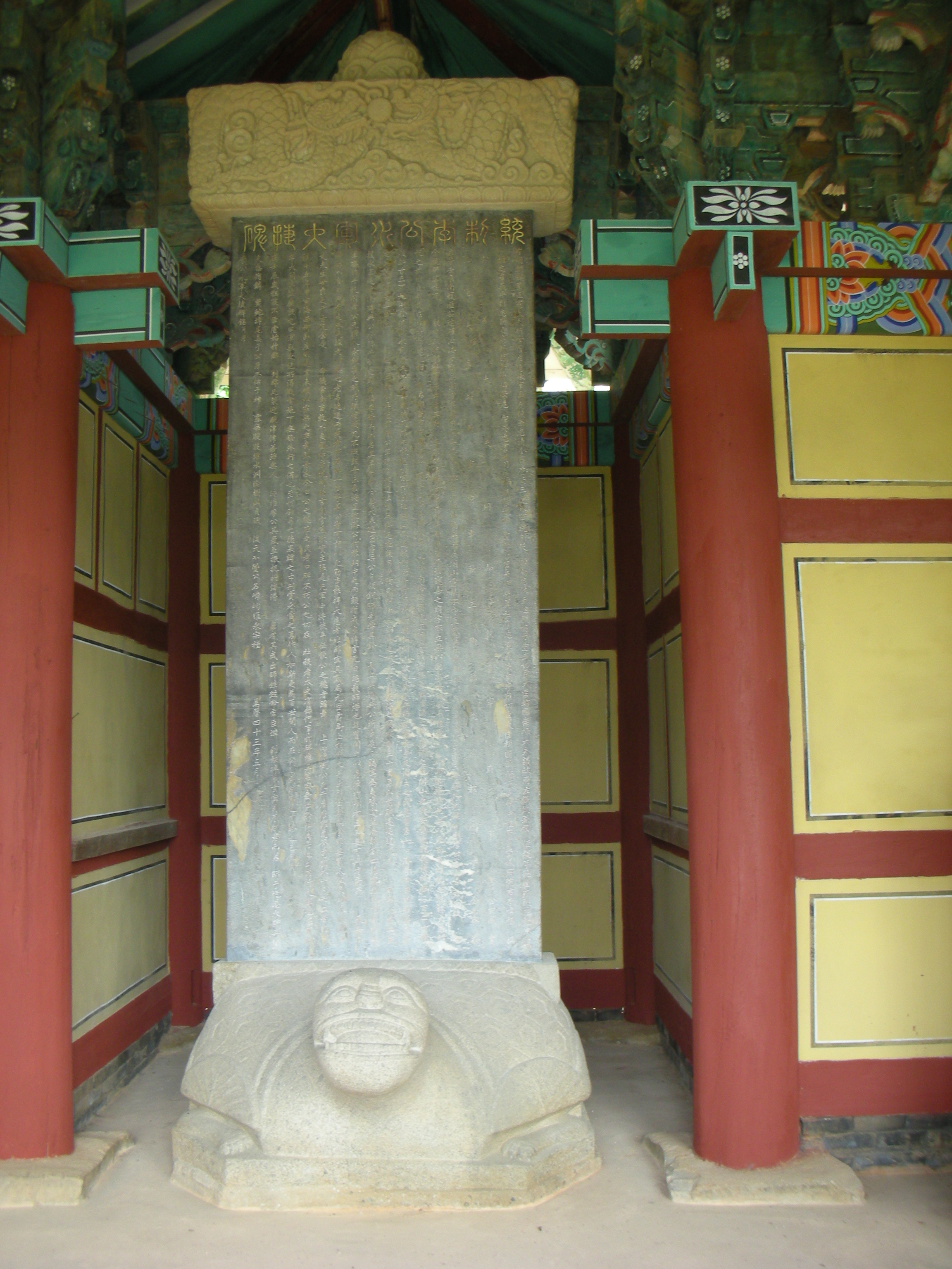 Daecheop monument in Gosodae